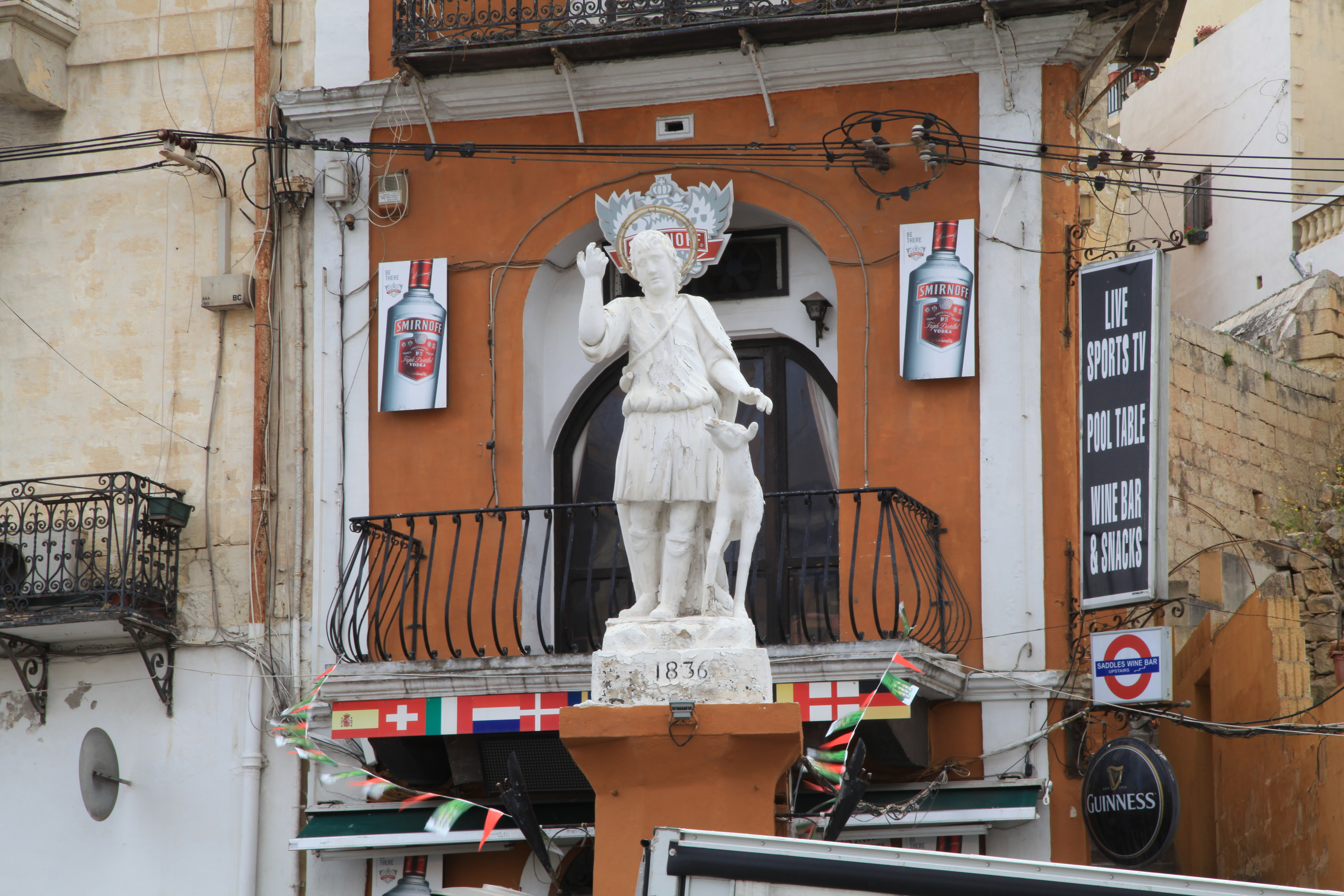 Triq Mikiel Ang Borg in St. Julian's, Malta